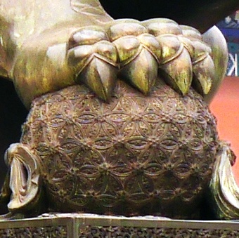 Ball held by the male Imperial Guardian Lion at the Gate of Supreme Harmony, Forbidden City, Beijing. China. The pattern on the ball surface resembles the one of the Flower of Life.